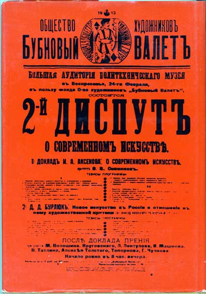 Poster for 2nd Dispute of Jack of Diamonds group, 1913